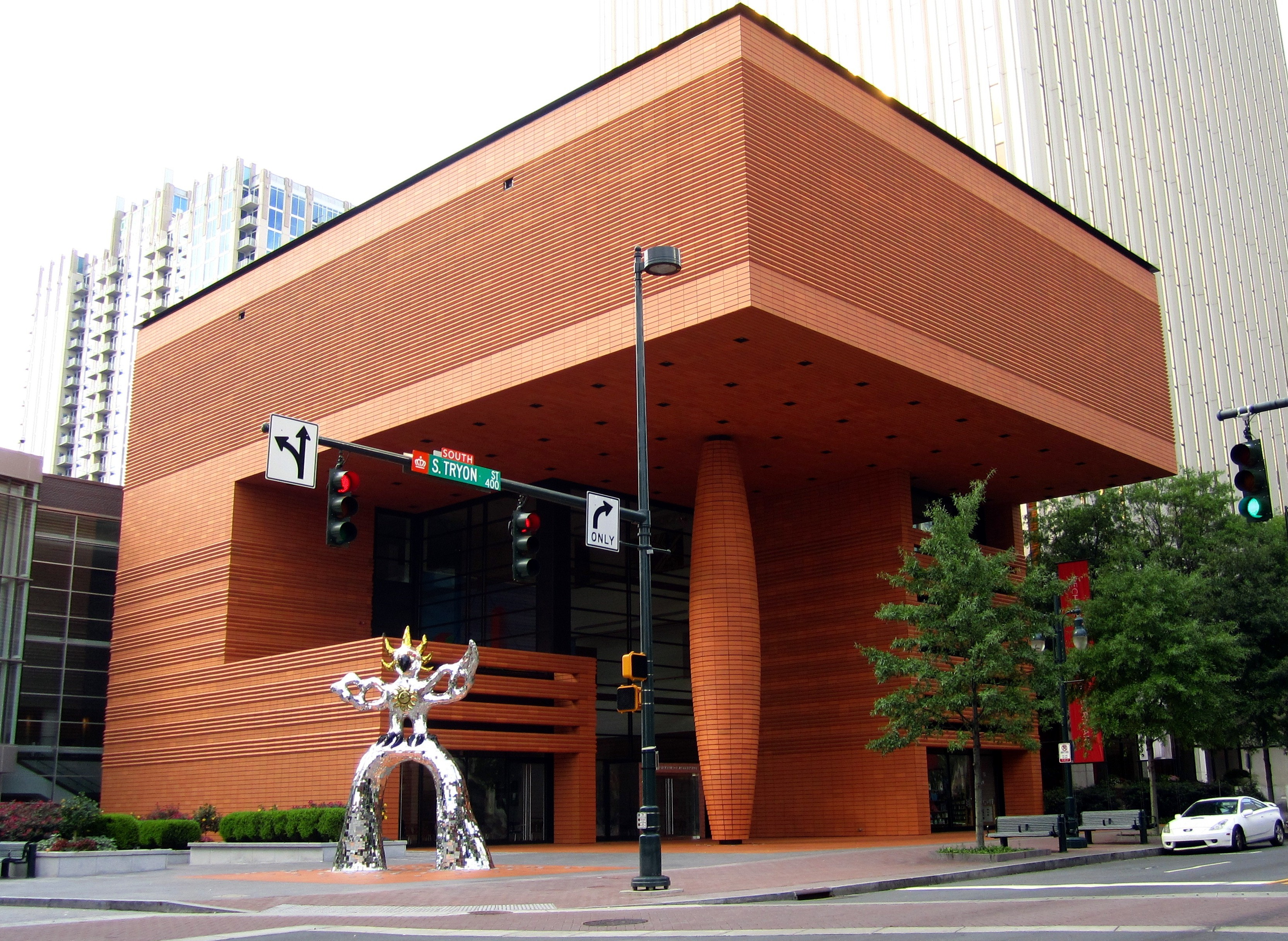 Bechtler Museum of Modern Art — in Charlotte, North Carolina. View of "The Firebird" sculpture (Niki de Saint Phalle); and the facades and entry portico (Mario Botta).